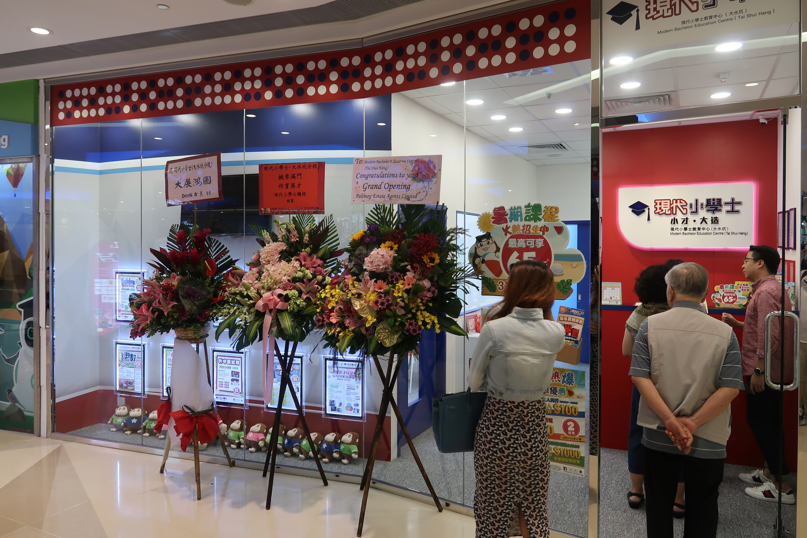 Modern Education in WE GO Mall